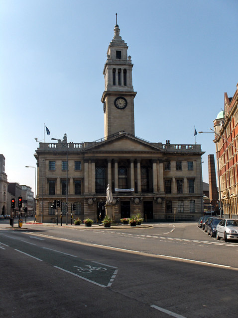 Hull Guildhall, Hull, East Riding of Yorkshire, England.Photo taken looking West from Alfred Gelder Street. The statue is of Charles Wilson, first Lord Nunburnholme, founder of the Wilson shipping line.